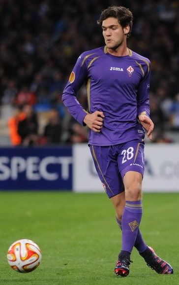 Marcos Alonso playing for ACF Fiorentina in an away match against Dynamo Kiev in UEFA Europa League on 16 April 2015